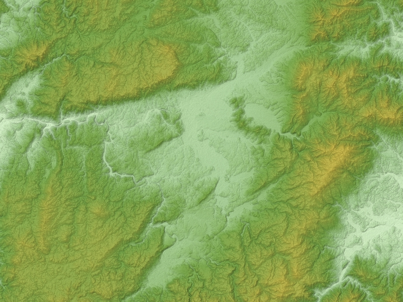 Ueno Basin in Mie Prefecture, Honshu, Japan.